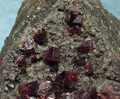 Galkhaite Locality: Getchell Mine, Adam Peak, Potosi District, Humboldt County, Nevada, USA (Locality at ) Size: 4.2 x 4.1 x 1.8 cm. A SUPERB miniature of lustrous, gemmy to opaque, dark blood-red galkhaite crystals to 3 mm RICHLY scattered on matrix from the famous Getchell Mine of Nevada from small finds in the late 1970s stashed until recent years by the mine geologist. Galkhaite is a ULTRA-RARE cesium, thallium, mercury sulfosalt and this is an OUTSTANDING example. SELDOM do you see galkhaite specimens with this many gemmy crystals!